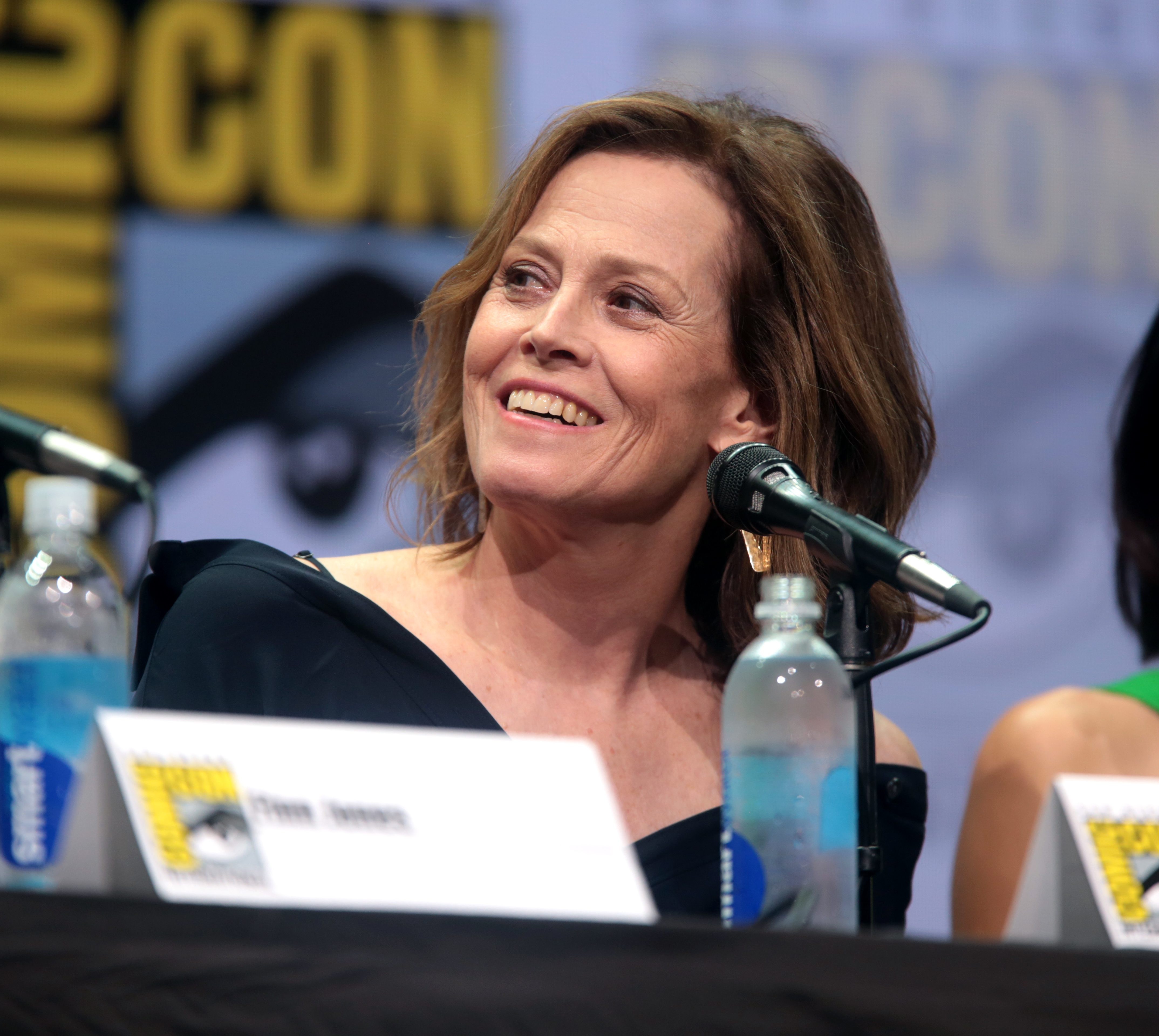 Sigourney Weaver speaking at the 2017 San Diego Comic Con International, for "Marvel's The Defenders", at the San Diego Convention Center in San Diego, California.